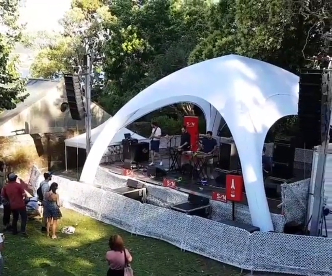 El Guincho tocando no festival Sinsal da Illa de San Simón no 2016.